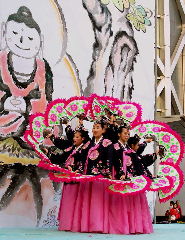 부처님 오신 날, Buddha's Birthday Festival.